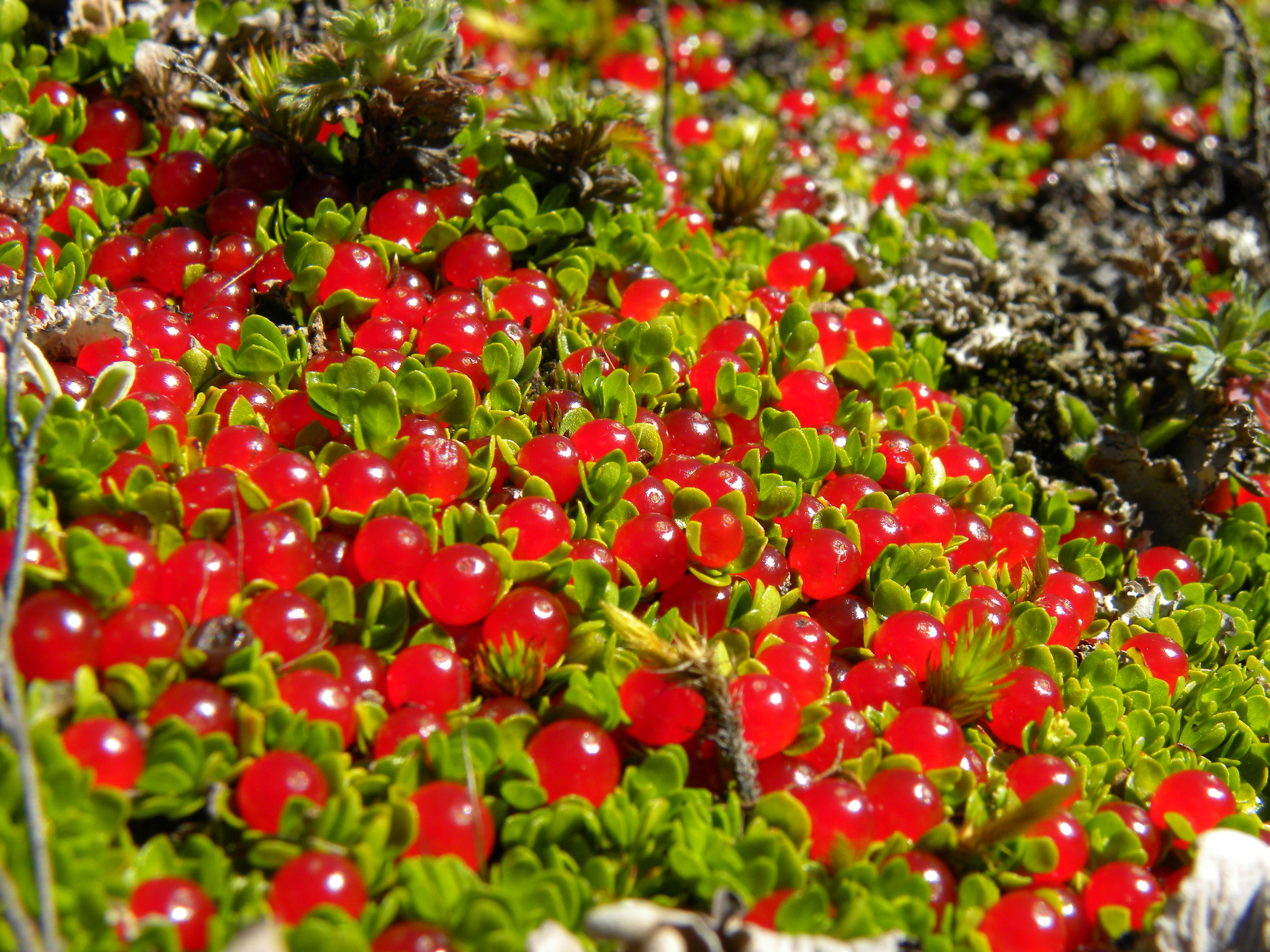 Red berries of Nertera granadensis on Cerro de la Muerte, San José Province, Costa Rica.